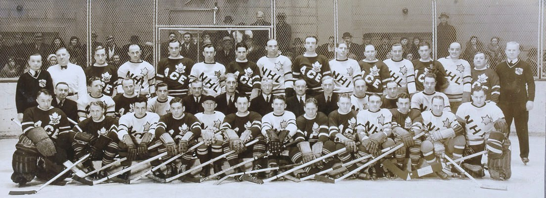 Photograph of all participants of Ace Bailey benefit game at Toronto, 1934.